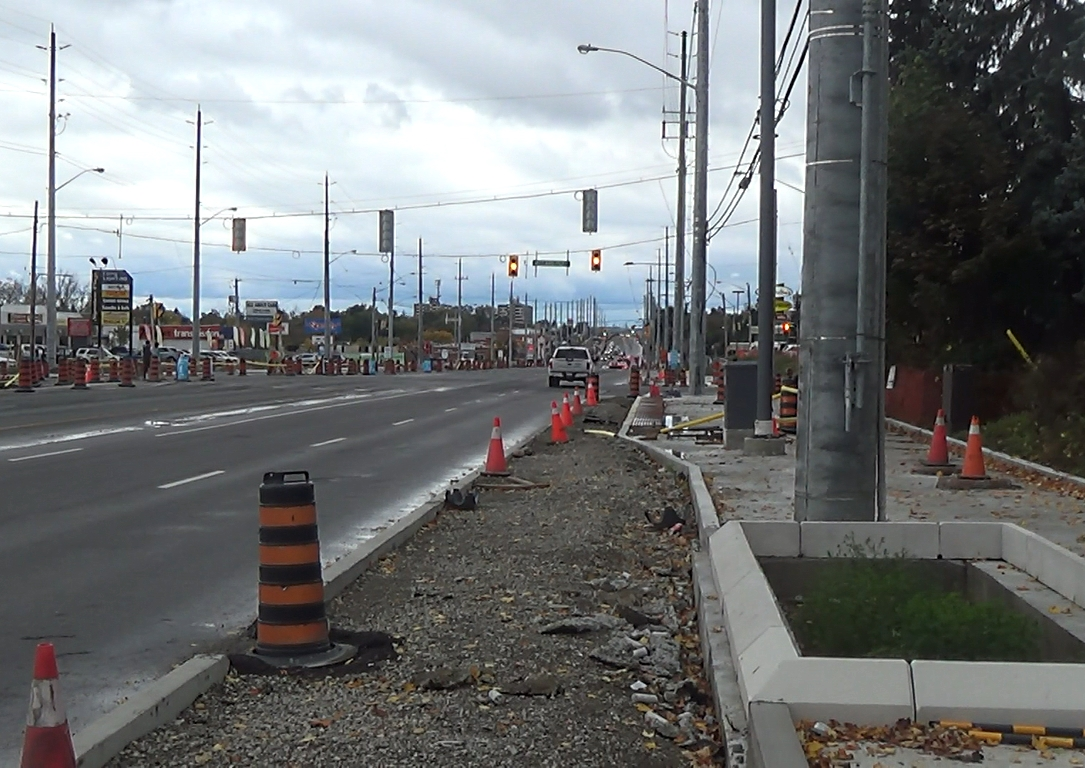 The Yonge Street Rapidway under construction in Newmarket, looking south from just north of Millard Avenue.